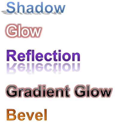 WordArt styles that I did on Microsoft Office Word 2010 Beta